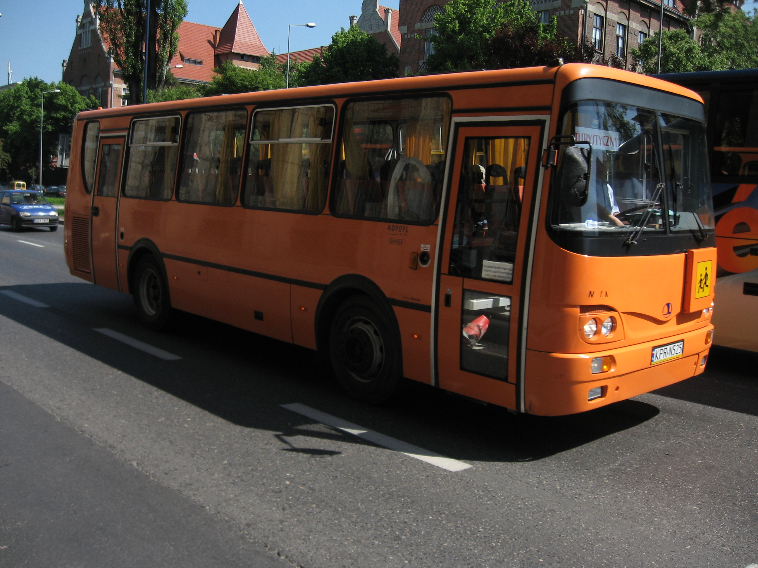 Orange Autosan A0909L/S Smyk school bus on Adama Mickiewicza avenue in Kraków, Poland.